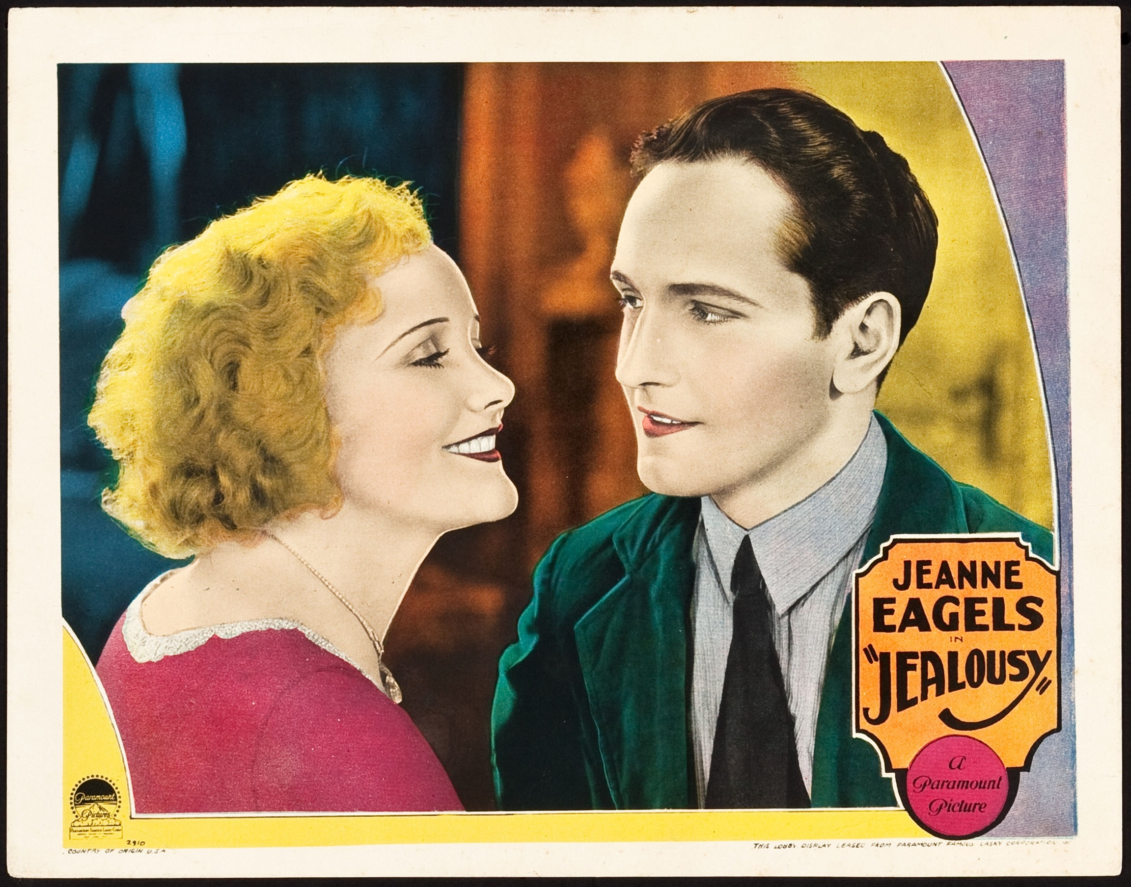 Lobby card for the 1929 film Jealousy. The item has no copyright markings on it as can be seen in the links above. At bottom left is Country of origin USA and-2910-this appears to pertain to the print job. At bottom left is This lobby display leased from Paramount Famous Lasky Corporation.